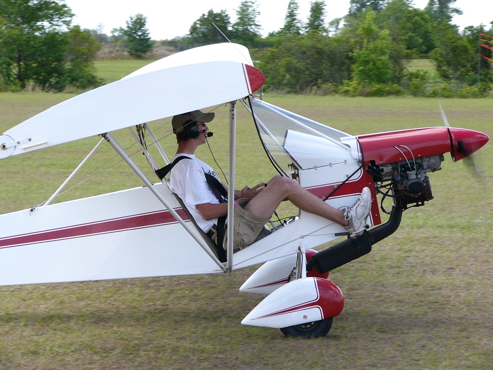 An ISON Airbike at Sun 'n Fun 2004